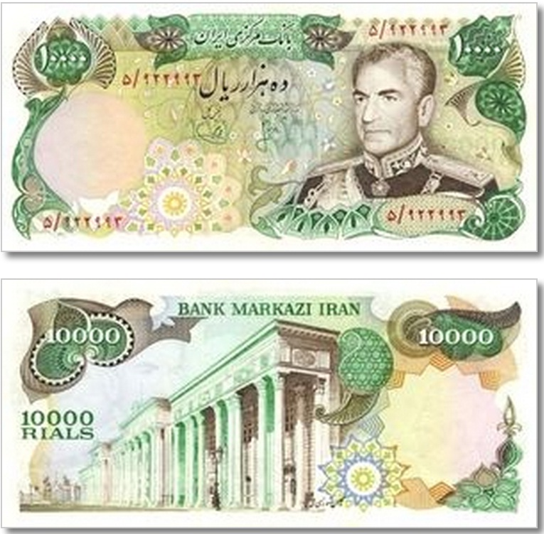 10000 Rials banknote Mohammad Reza shah 1974 to 1979